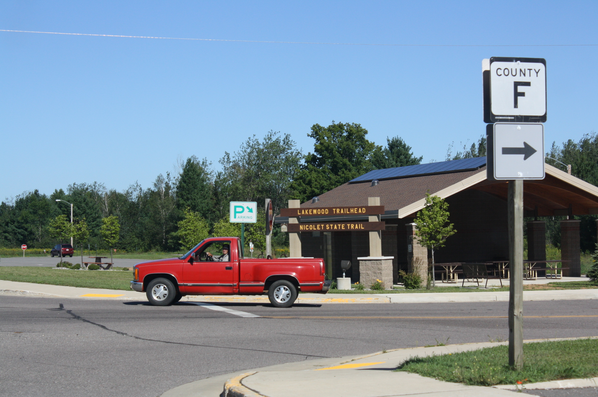 The trailhead for the Nicolet State Trail in Lakewood, Wisconsin.